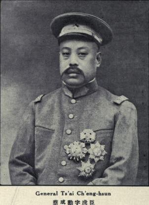 Cai Chengxun (Ts'ai Ch'eng-hsün), Huchen (1873 - 1946)